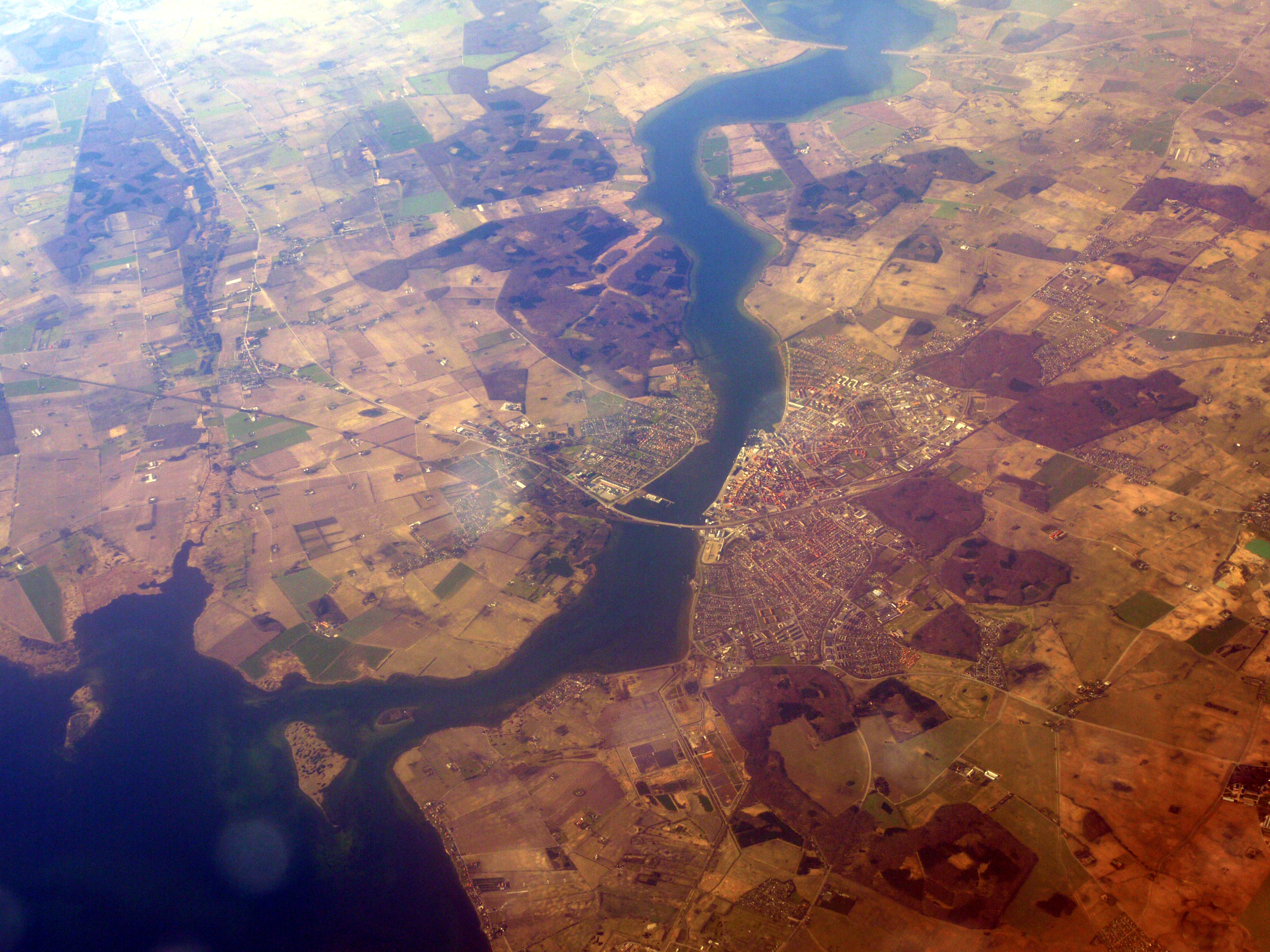 Nykøbing Falster, photograph taken from the sky, on the fly line between Marseille and Stockholm.